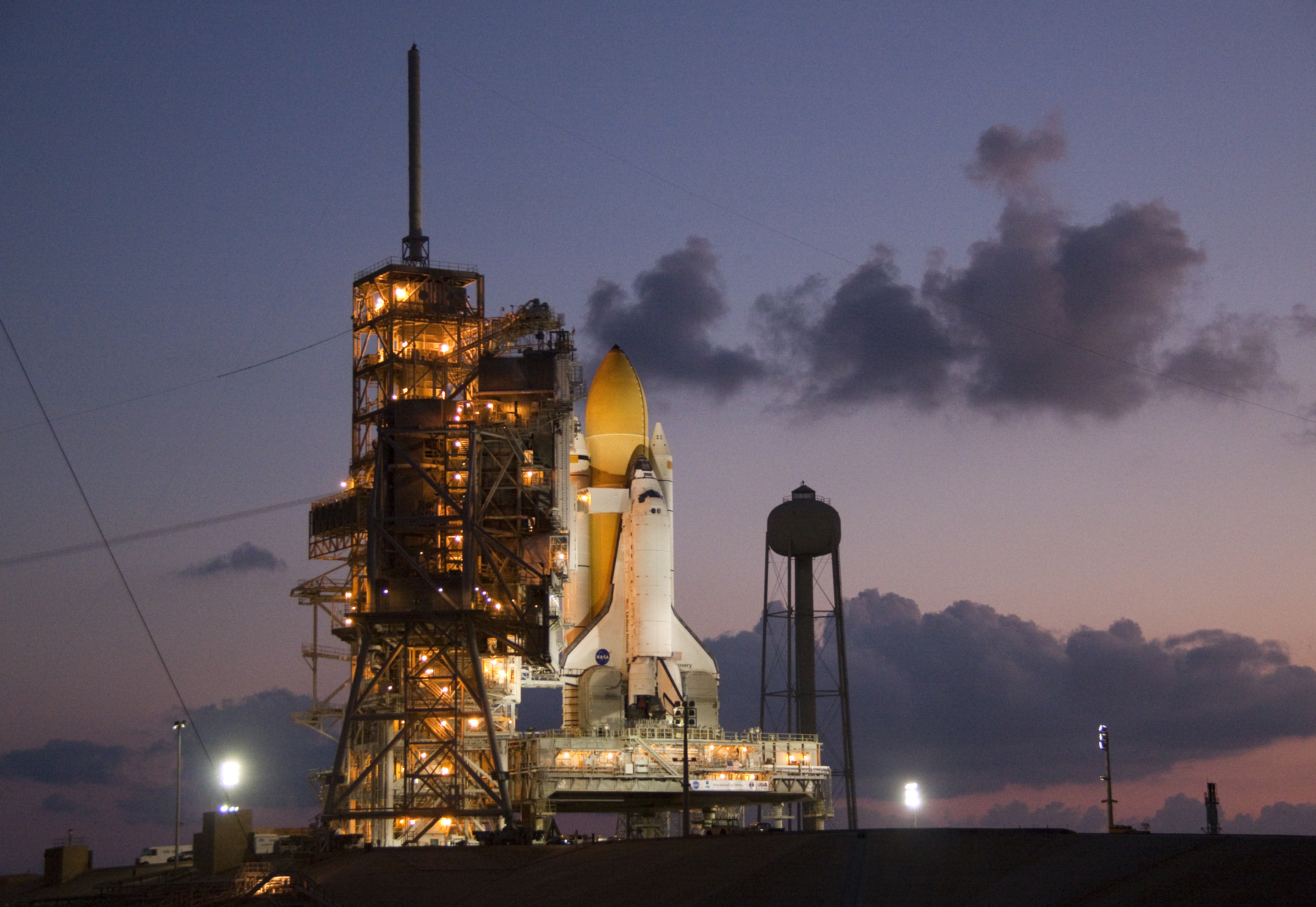 CAPE CANAVERAL, Fla. – Space shuttle Discovery is attached to Launch Pad 39A as the sun rises over NASA's Kennedy Space Center in Florida. It took the spacecraft about six hours to make the journey, known as "rollout", from the Vehicle Assembly Building to the pad. Rollout sets the stage for Discovery's STS-133 crew to practice countdown and launch procedures during the Terminal Countdown Demonstration Test in mid-October. Targeted to liftoff Nov. 1, Discovery will take the Permanent Multipurpose Module (PMM) packed with supplies and critical spare parts, as well as Robonaut 2 (R2) to the International Space Station.